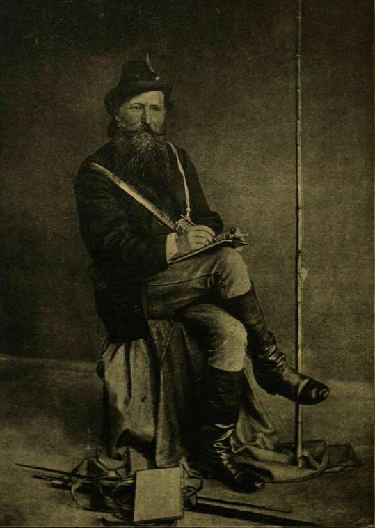 Ottó Herman on fishing study trip